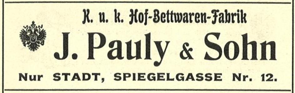 old advertisement of a purveyor to the Imperial and Royal Court of Austria-Hungary.